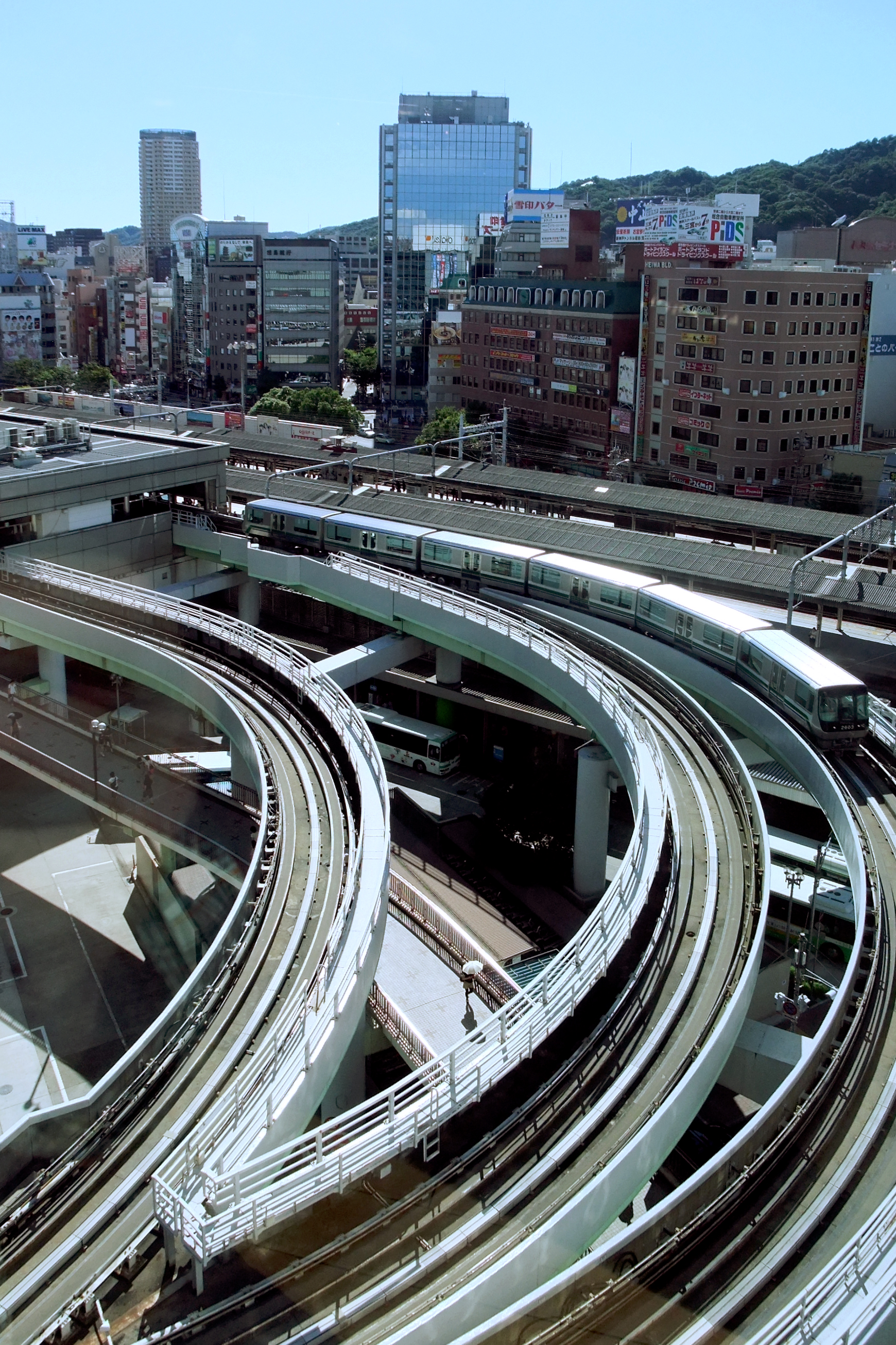 Sannomiya Station of Port Liner in Kobe, Hyogo prefecture, Japan